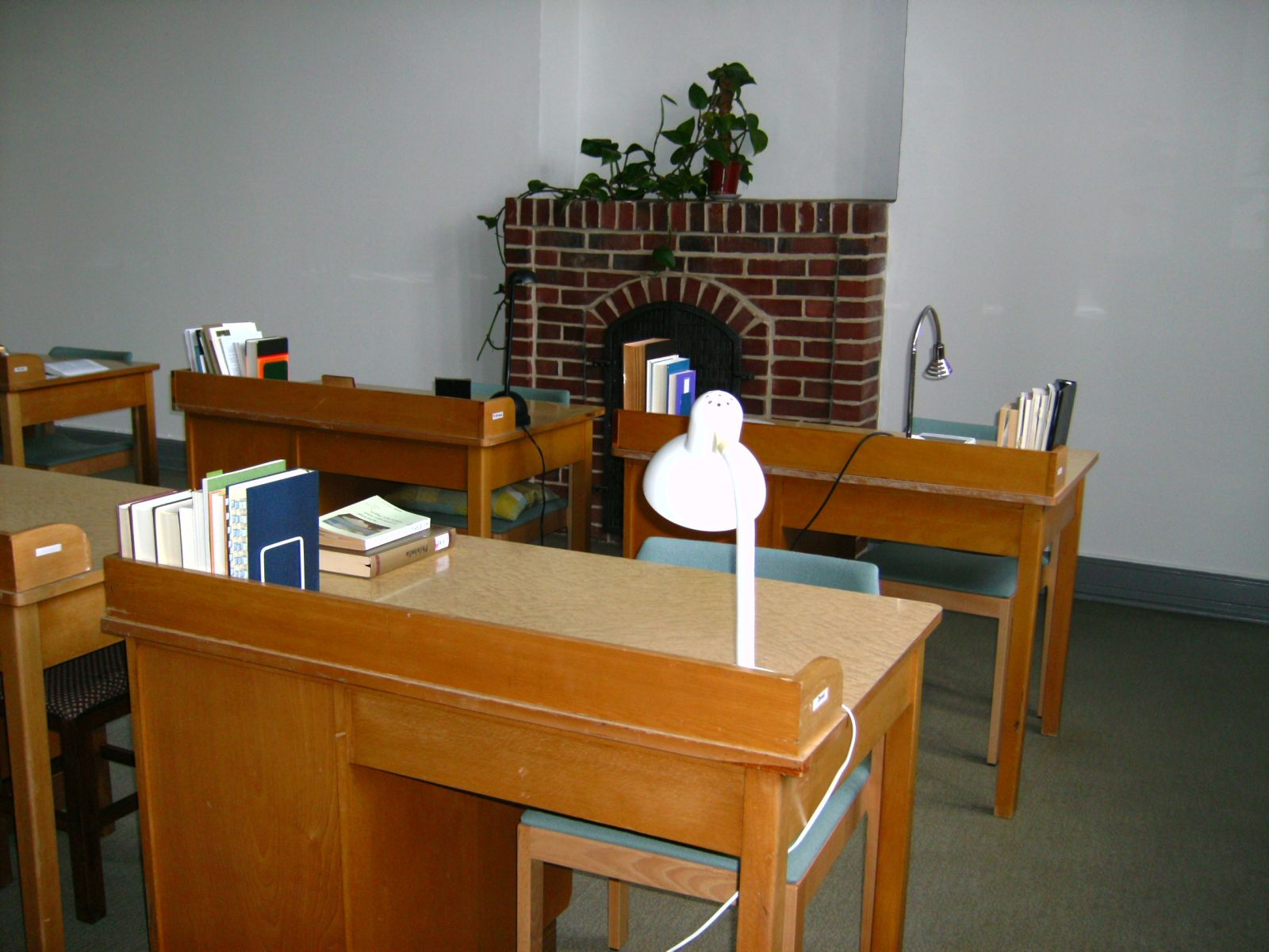 Scriptorium of Mariawald abbey, Heimbach, Germany